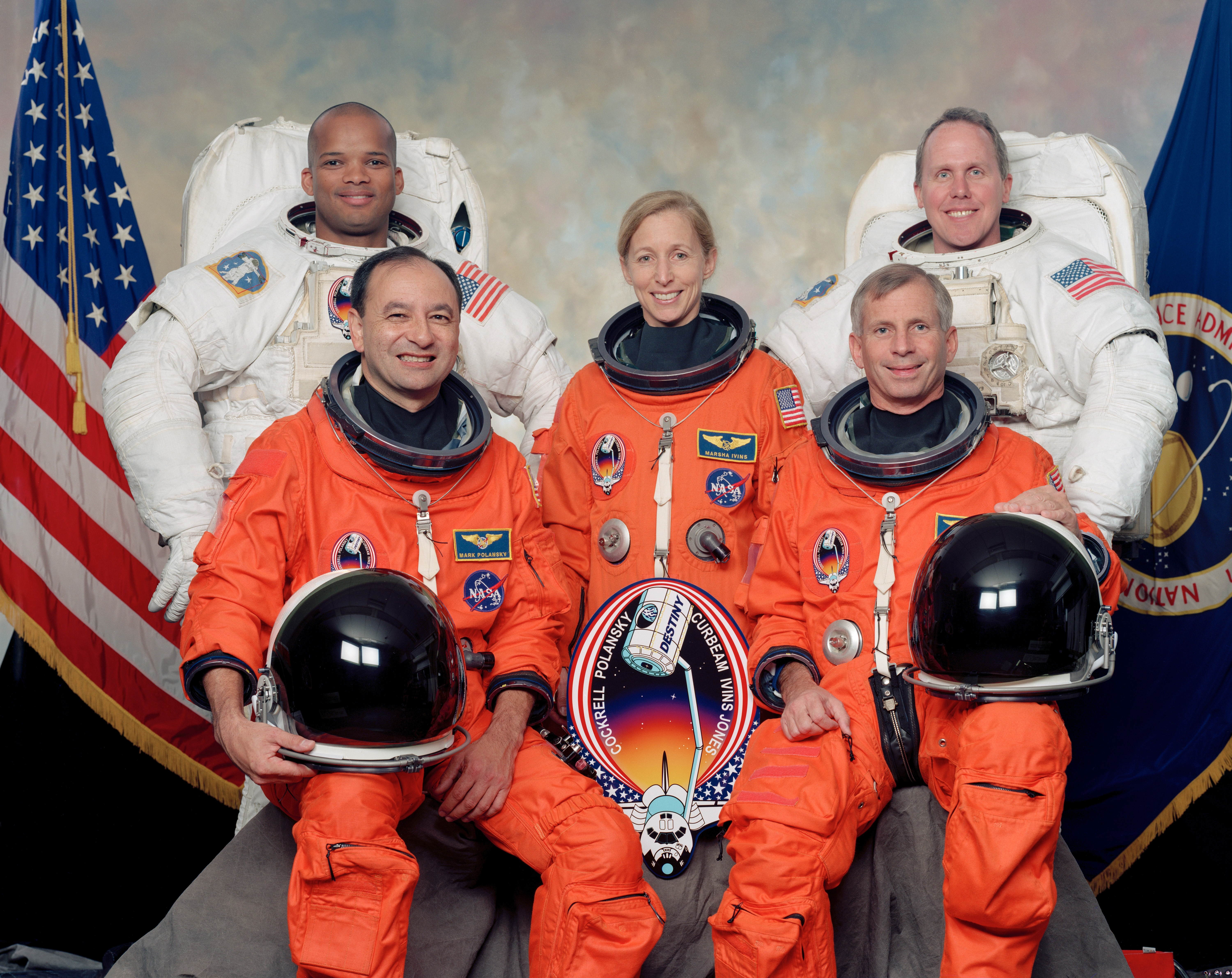 These five astronauts have been in training for the STS-98 mission, scheduled for launch aboard the Space Shuttle Atlantis in January of 2001. The crew is composed of astronauts Kenneth D. Cockrell (right front), mission commander; and Mark L. Polansky (left front), pilot; along with astronauts Marsha S. Ivins, Robert L. Curbeam, Jr., (left rear) and Thomas D. Jones (right rear), all mission specialists. Curbeam and Jones are the scheduled extravehicular activity (EVA) participants for the International Space Station's 5A mission.